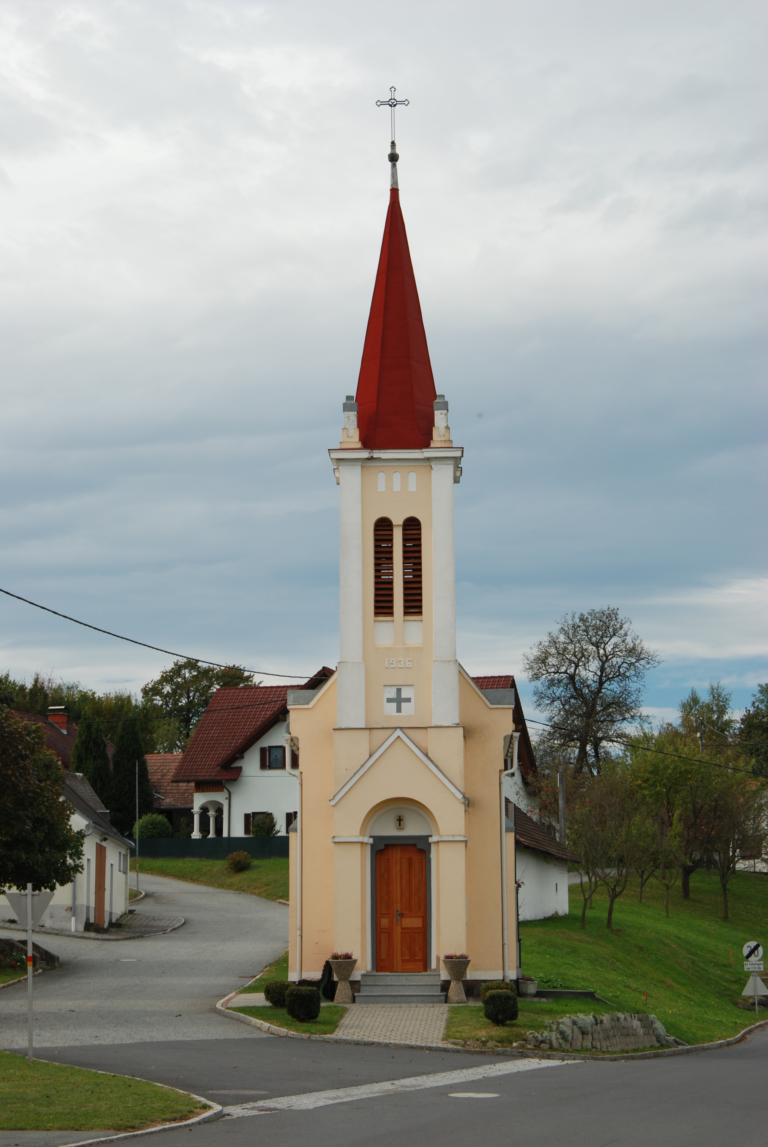 Ortskapelle Krobotek